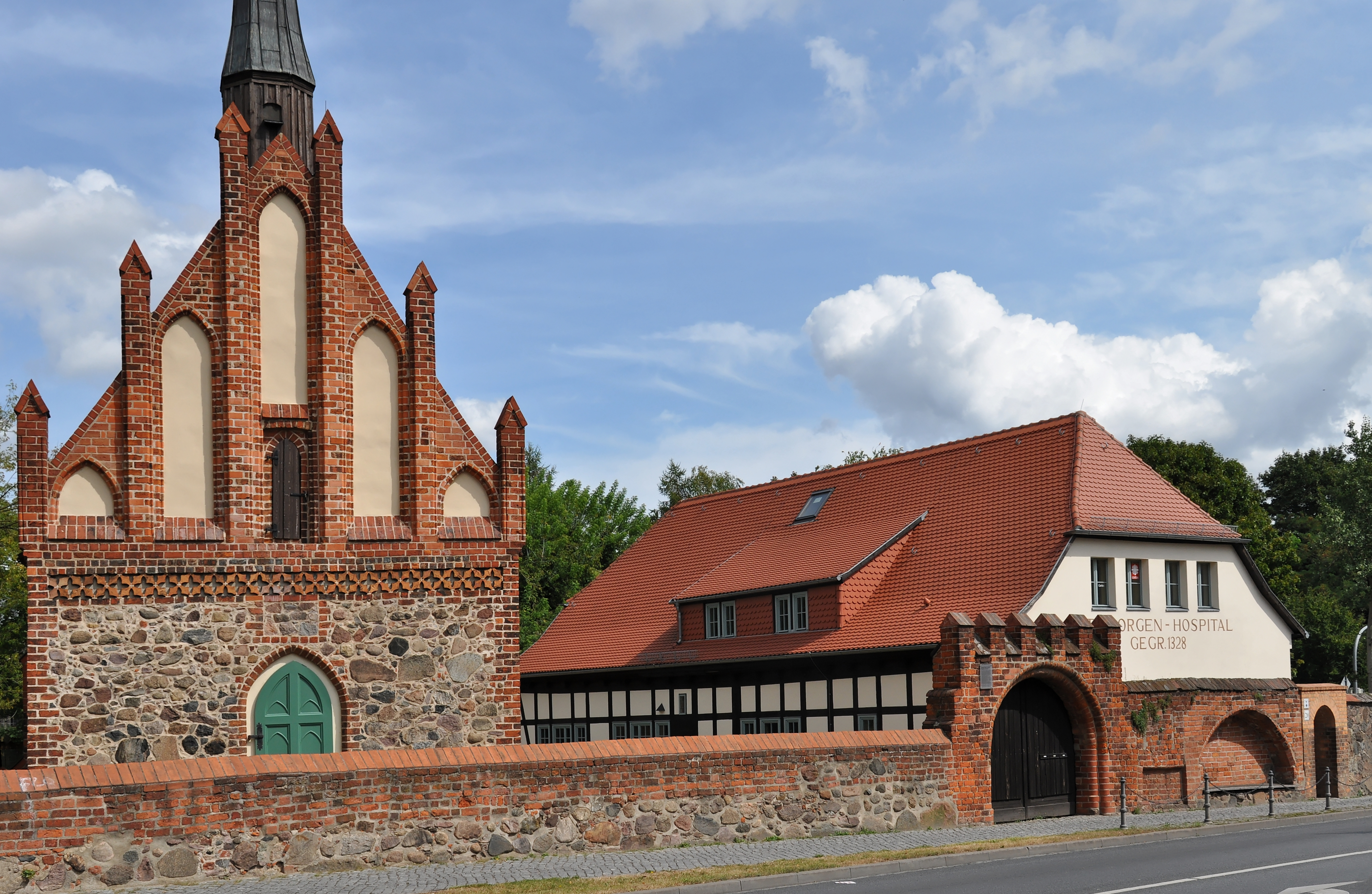 Former hospital "St. George" in Bernau bei Berlin, Germany (monument)